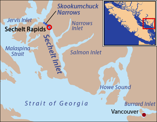 This is a locator map of Sechelt Inlet and Skookumchuck Narrows. I, Pfly, made it with ArcGIS, Adobe Illustrator, and Adobe Photoshop. The coastline data is from the Digital Chart of the World. Text enlarged from earlier version.